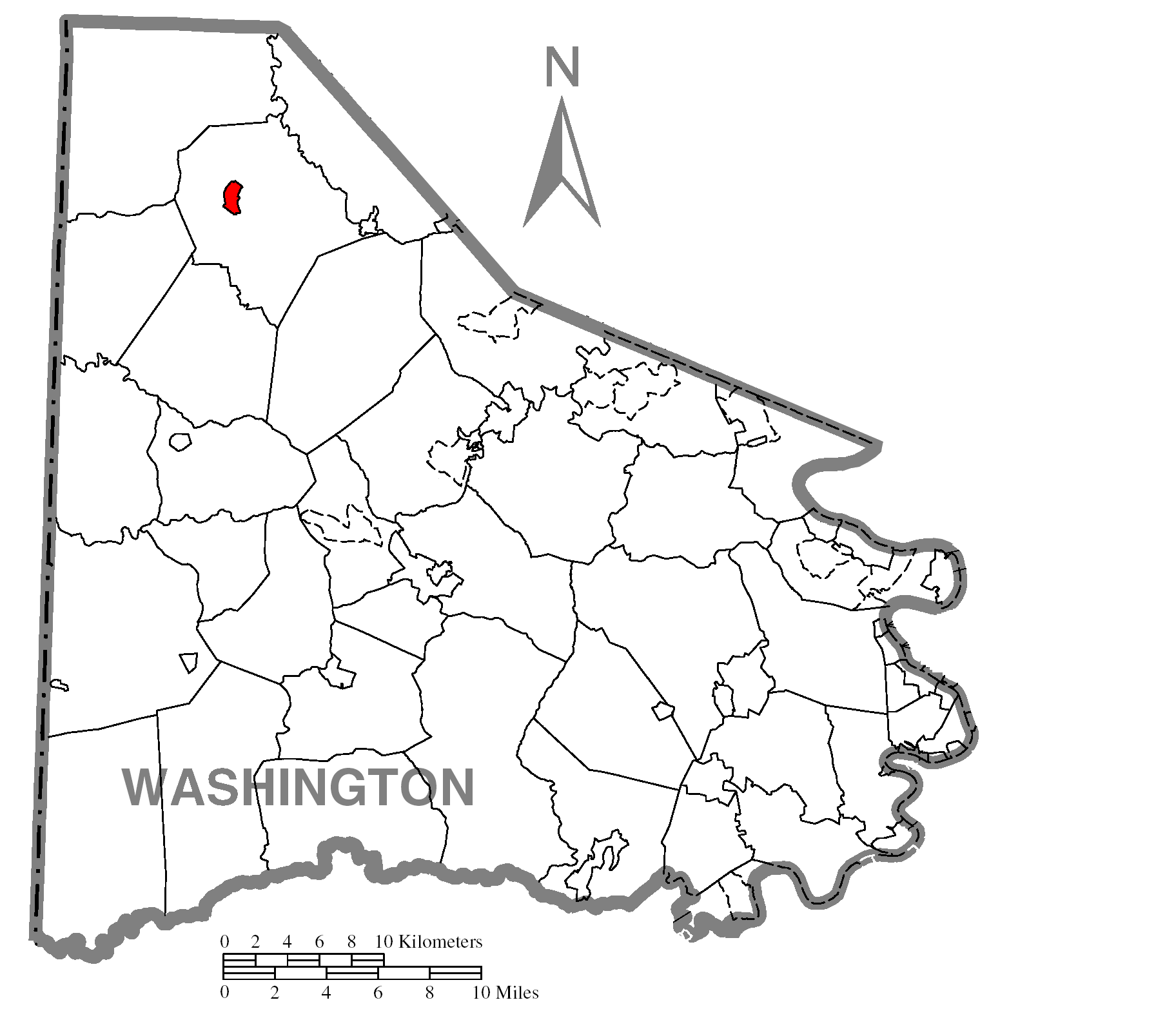 Map of Washington County higlighting Burgettstown.